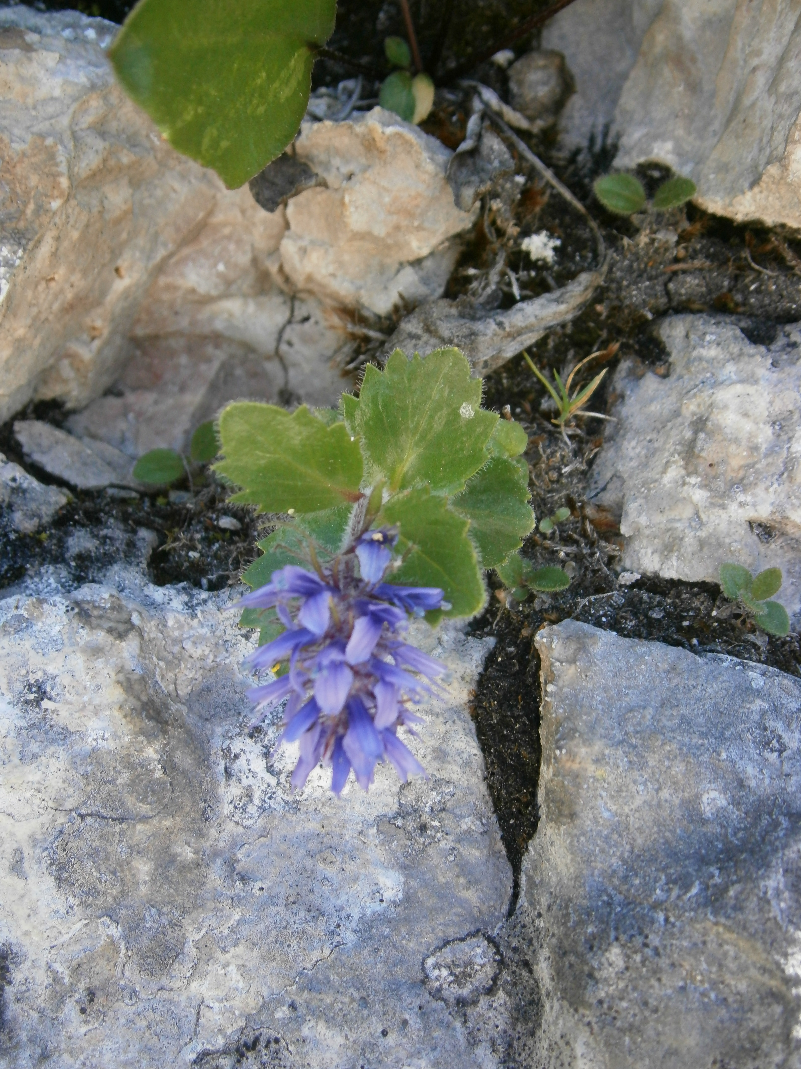 Paederota bonarota